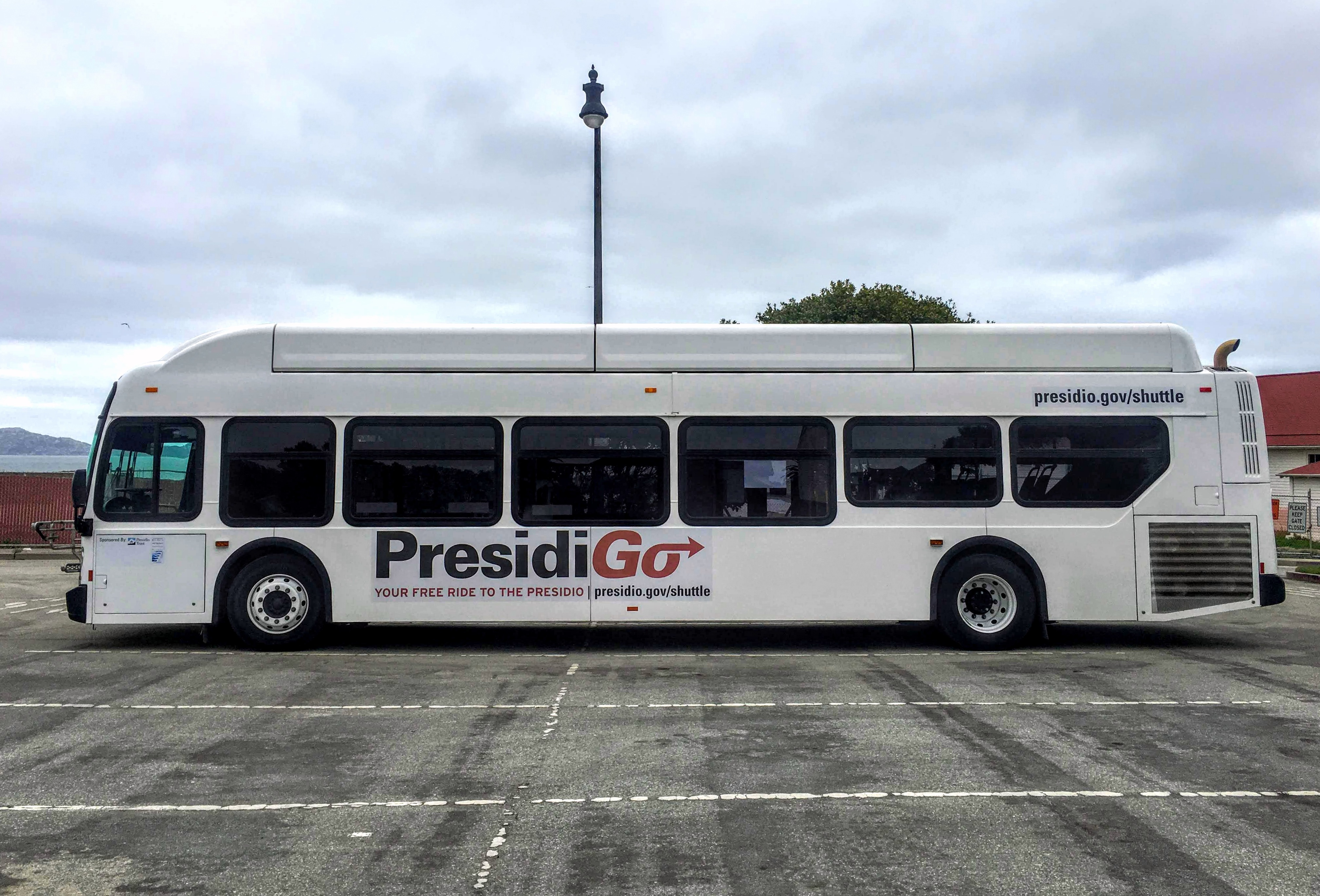 PresidiGo bus #1024 near Presidio Main Post in March 2020